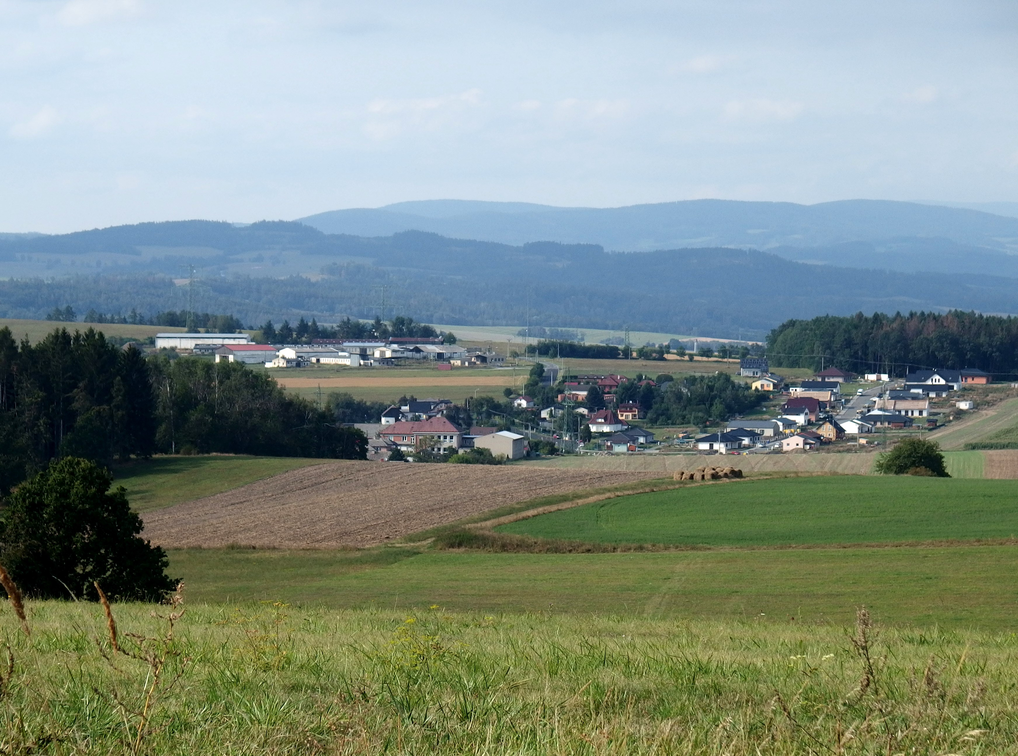 Jestřebí, Šumperk District, Czechia.